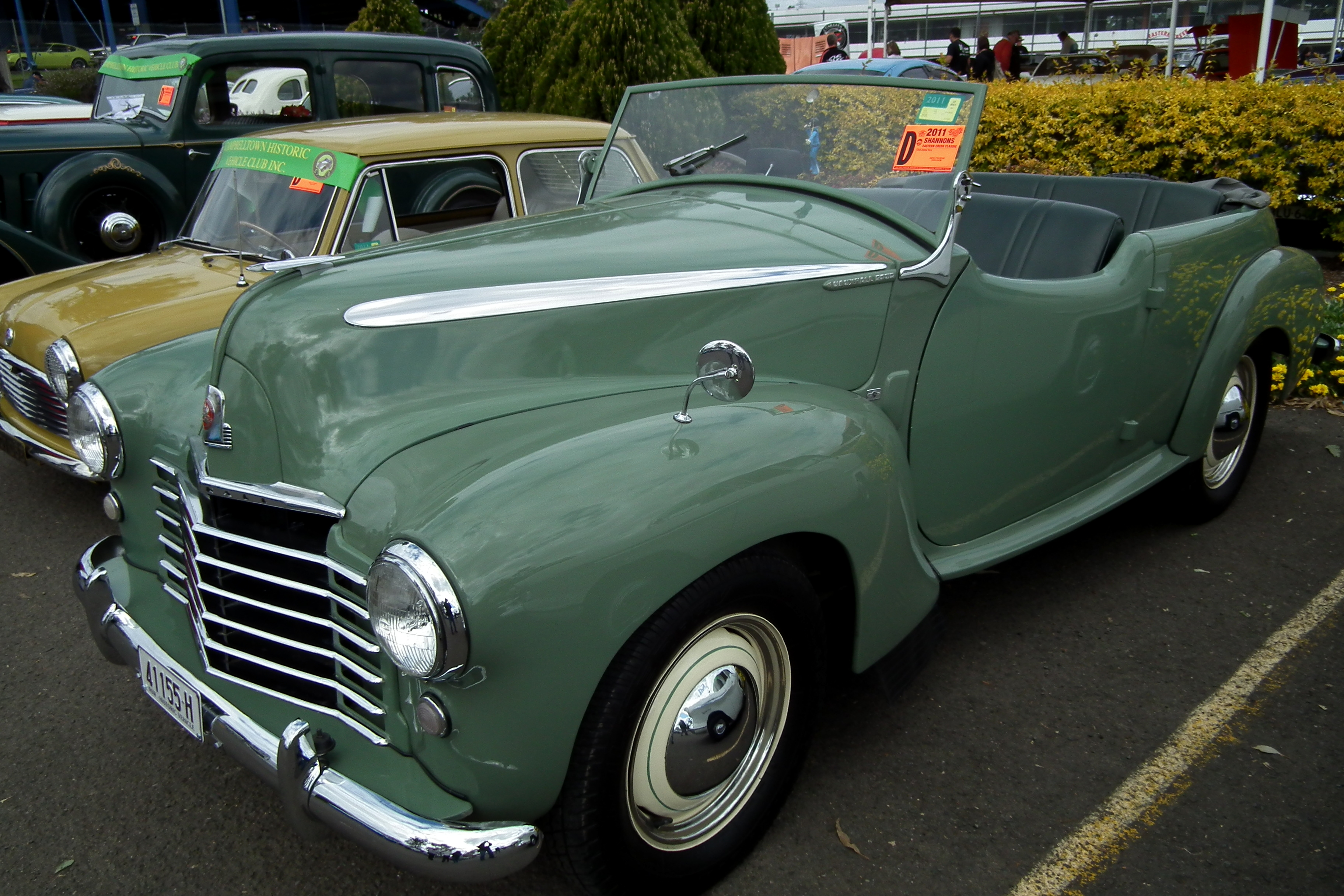 1950 Vauxhall Wyvern L-series Caleche tourer. Holden bodied. Taken at Shannon's Eastern Creek Classic 2011, held at Eastern Creek Raceway Sydney.